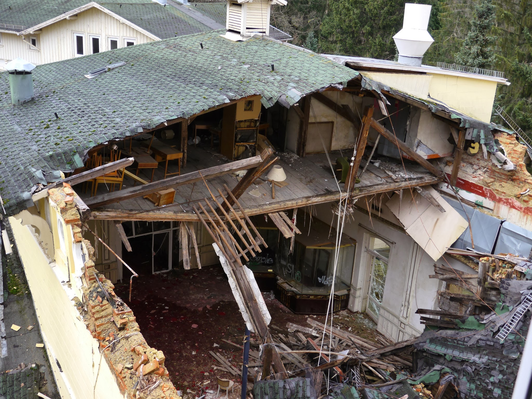 collapsed roof due to lack of maintenance (abandonned building)